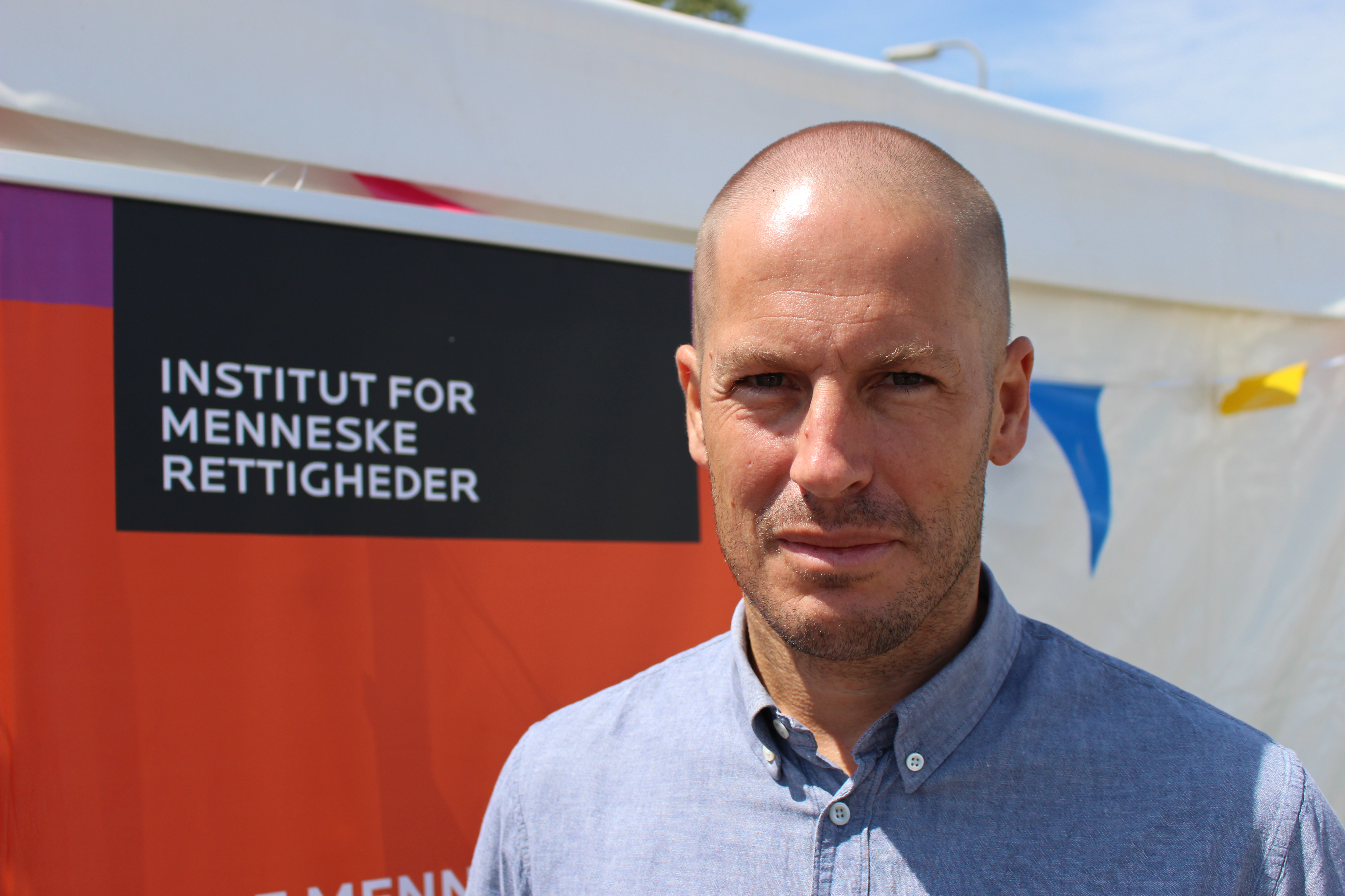 Jonas Christoffersen, Executive Director for the Danish Institute for Human Rights, Folkemødet 2016.